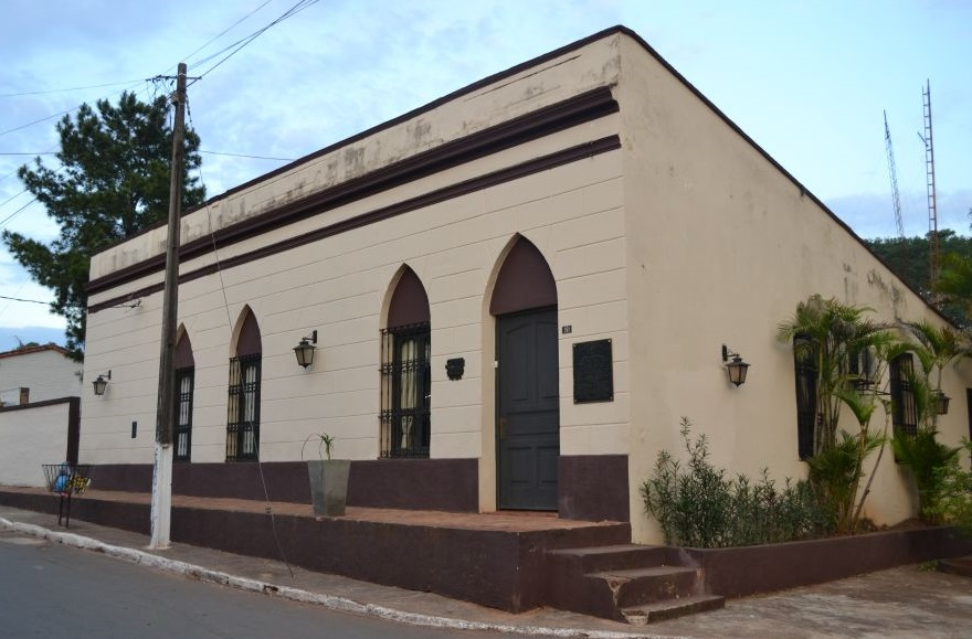 Vista de la casona que perteneciera al libanés Félix Tanasio Paivé, donde fue fundado el Club 12 de Octubre de Itauguá en fecha 14/08/1914.